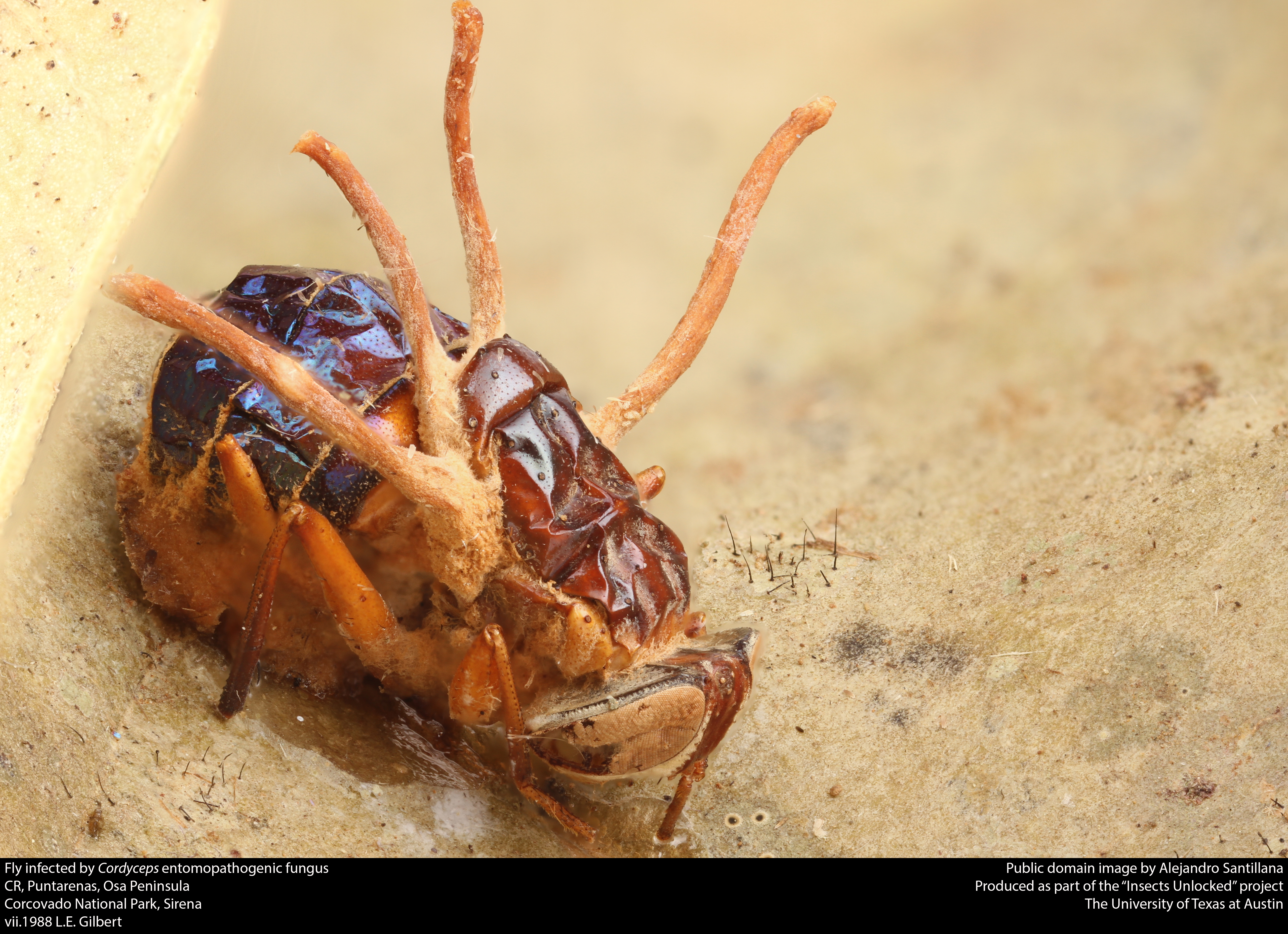 Fly infected by Cordyceps entomopathogenic fungus CR, Puntarenas, Osa Peninsula Corcovado National Park, Sirena vii.1988 L.E. Gilbert This image was created as part of the Insects Unlocked project at the University of Texas at Austin. Based in the UT insect collection at Brackenridge Field Laboratory, part of the Department of Integrative Biology. Do not crop: This image is used on one or more sister projects, where its entire contents are wanted. If you crop it, please save the new image separately, and do not overwrite this one.